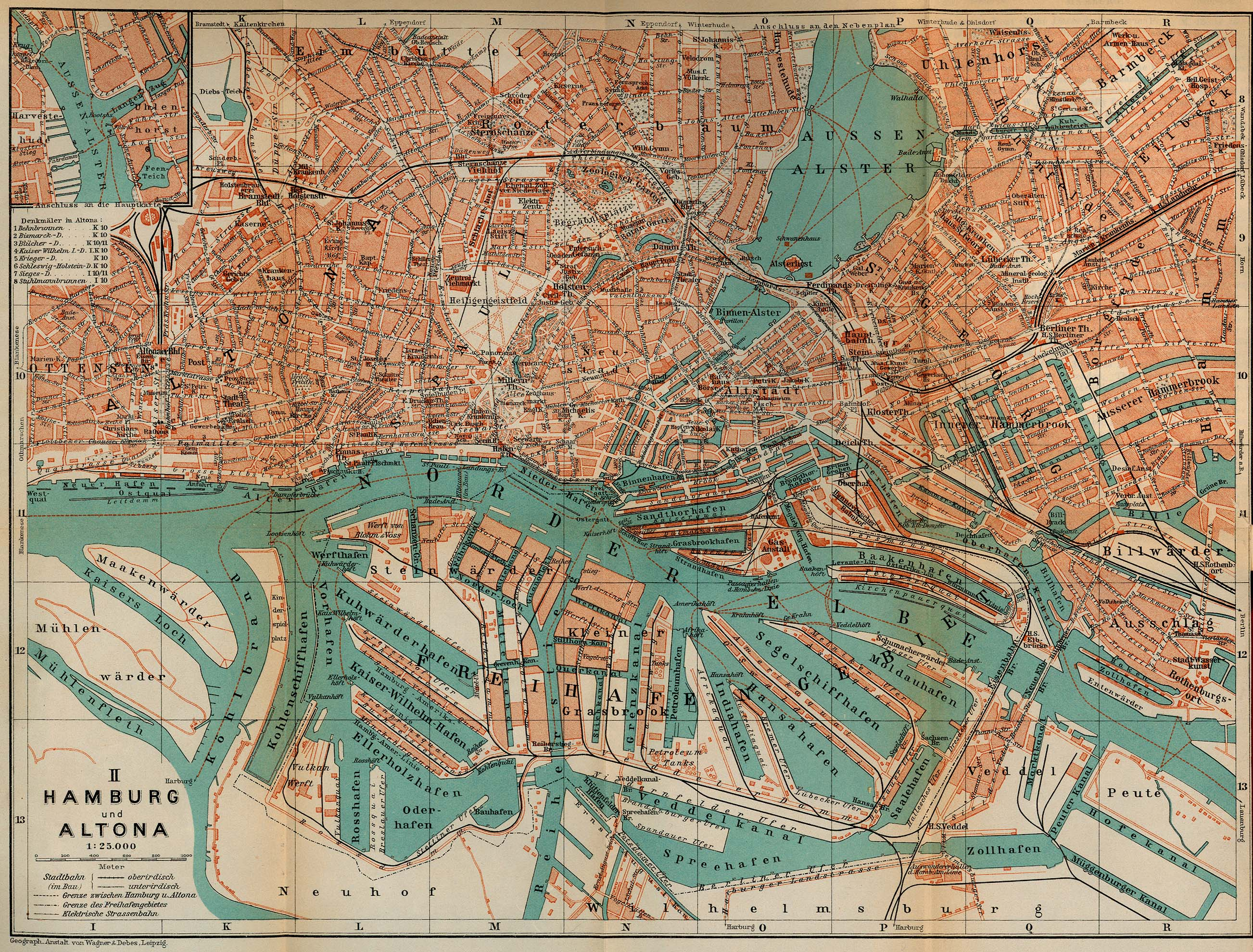 Map of Hamburg and Altona, Germany, 1910